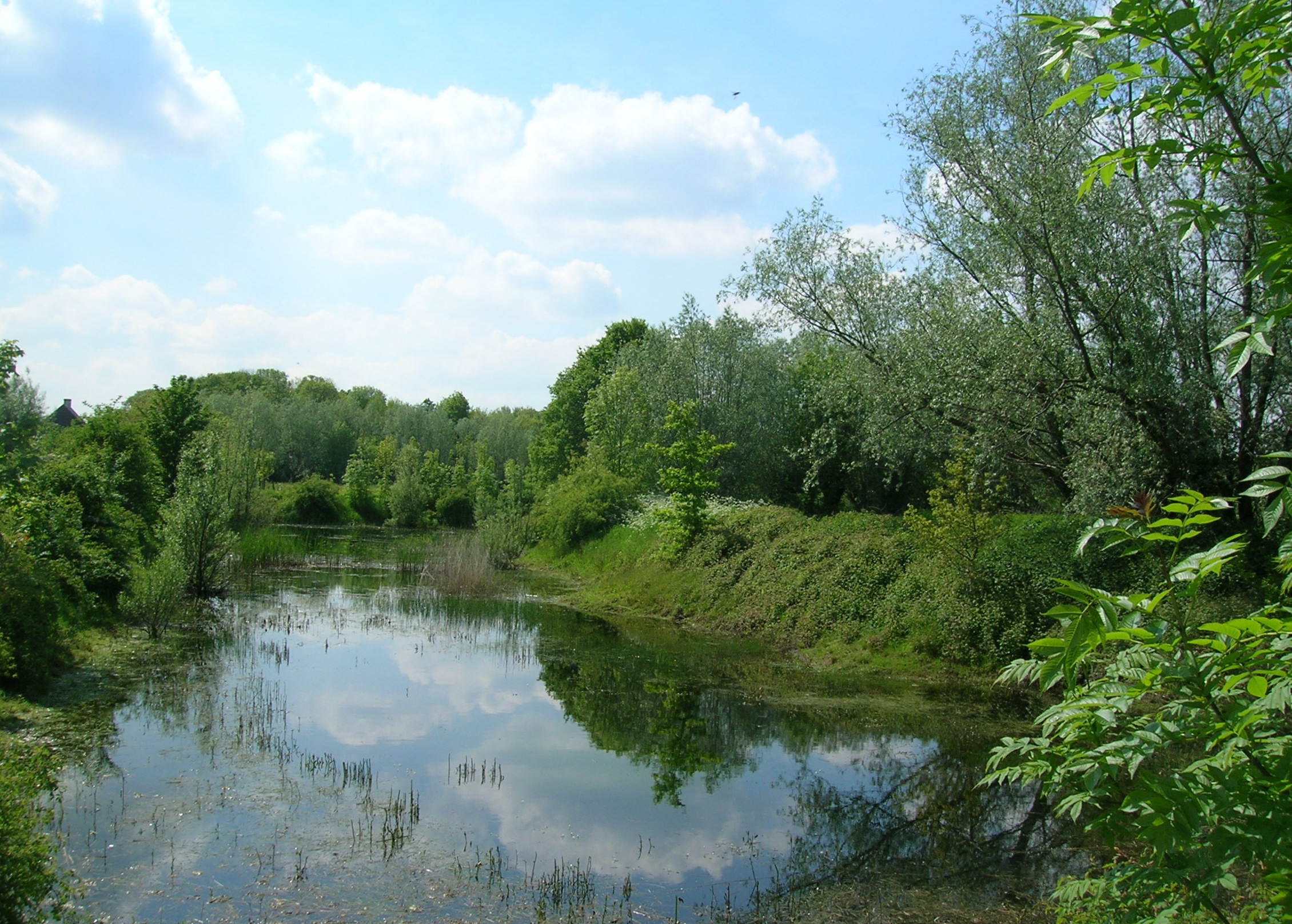 Breeding pond for Triturus cristatus